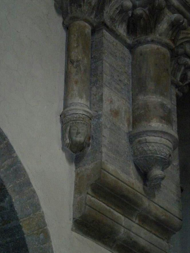 Contemporary bust of Duke Birger of Sweden as identified by Prof. Jan SvanbergPlace: Varnhem Church, Axvall, Sweden